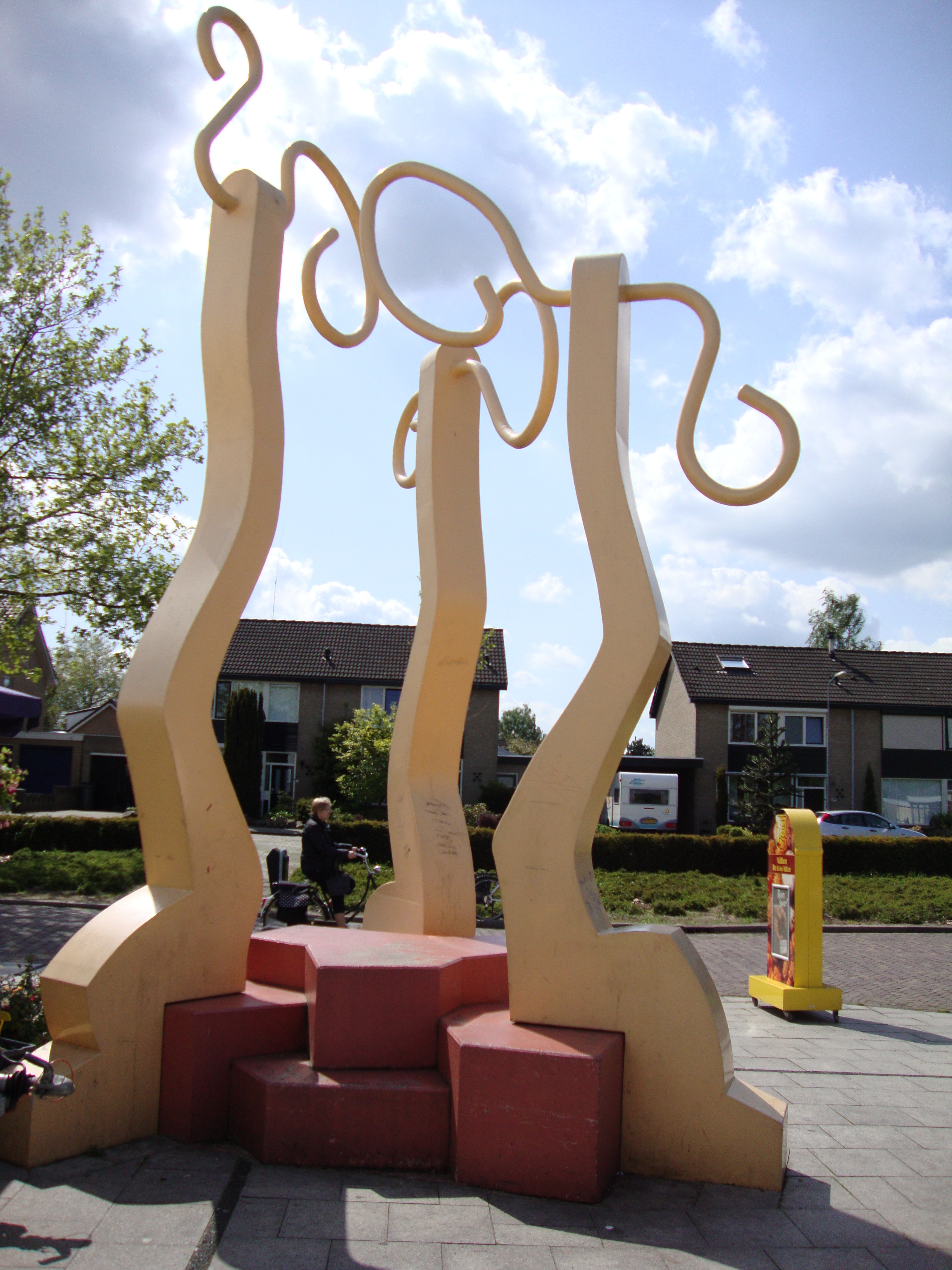 Sculpture Het Prieel (1992) by Hans Vos (Wijchen, Gld, NL).